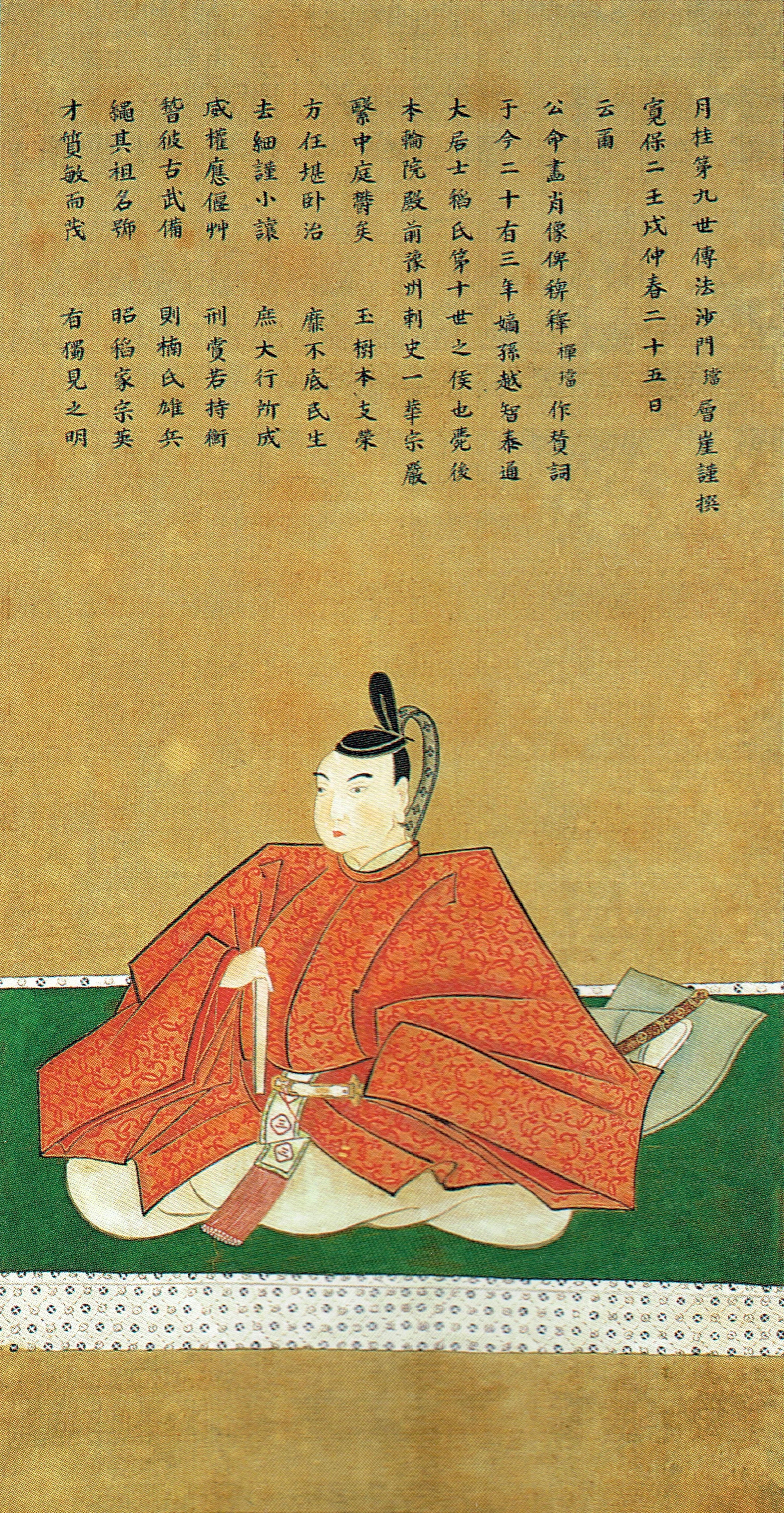 Portrait of Inaba Tsunemichi, owned by Gekkei-ji Temple in Usuki, Oita, Japan